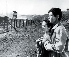 Tatsuya Nakadai and Michiyo Aratama in 1959 Japanese movie The Human Condition